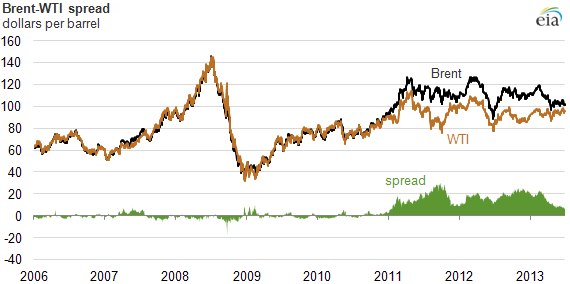 The price difference between Brent Crude and West Texas Intermediate narrowed in mid-2013